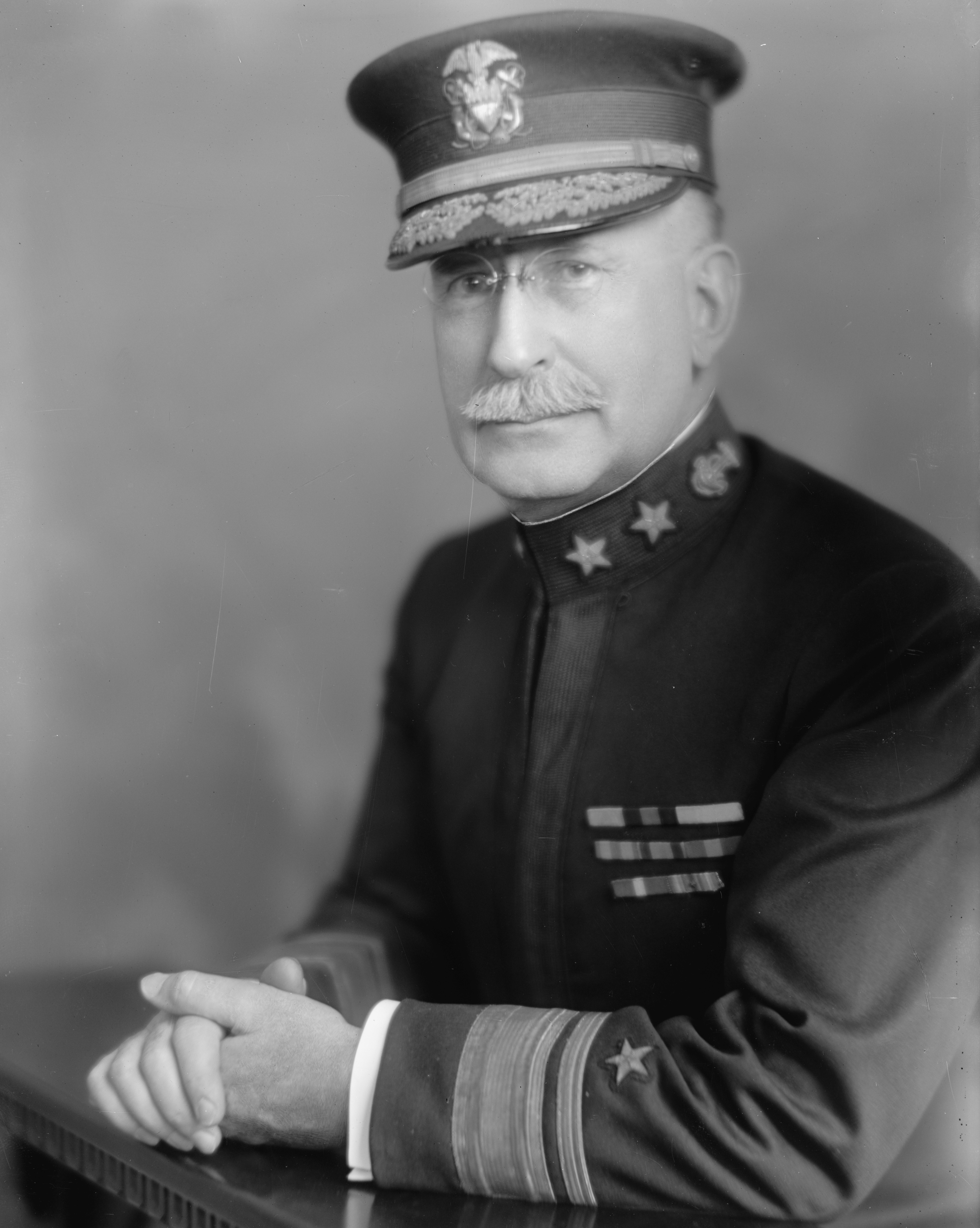 Title: STICKNEY, H.O., ADMIRAL Abstract/medium: 1 negative : glass ; 8 x 10 in. or smaller